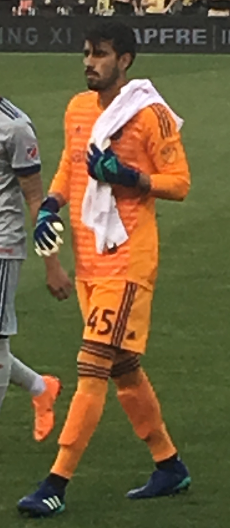 Picture of Richard Sanchez before a game against Columbus Crew SC on May 12, 2018.